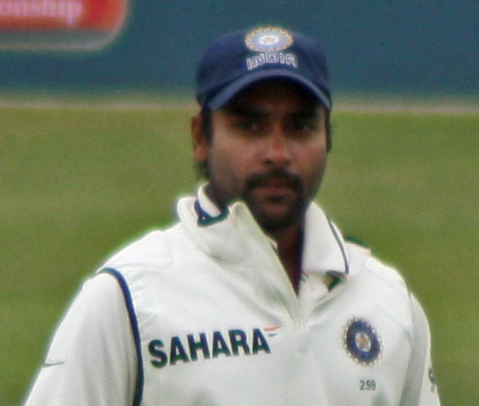 Amit Mishra in the field during India's first match of their 2011 tour of England at the County Ground, Taunton